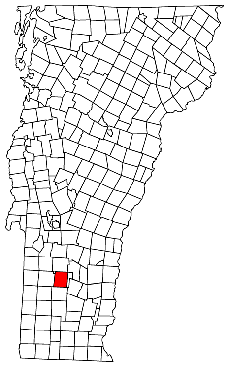 Description: Map of Vermont towns with Peru highlighted Source: Map created by Jared C. Benedict on 26 March 2004. Copyright: © Jared C. Benedict.